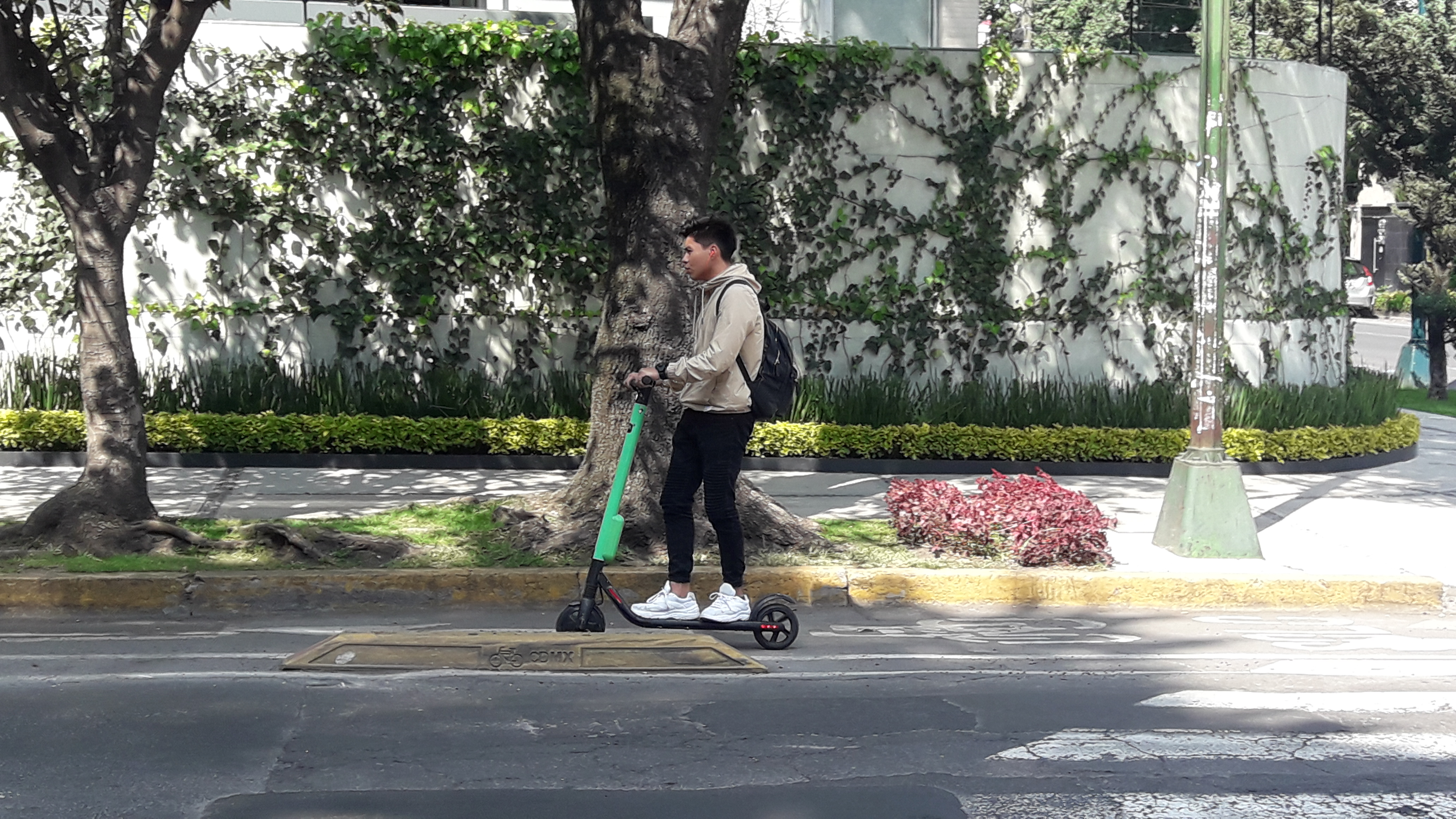 A man rides a Grin electric scooter in a cycle lane in Mexico City.